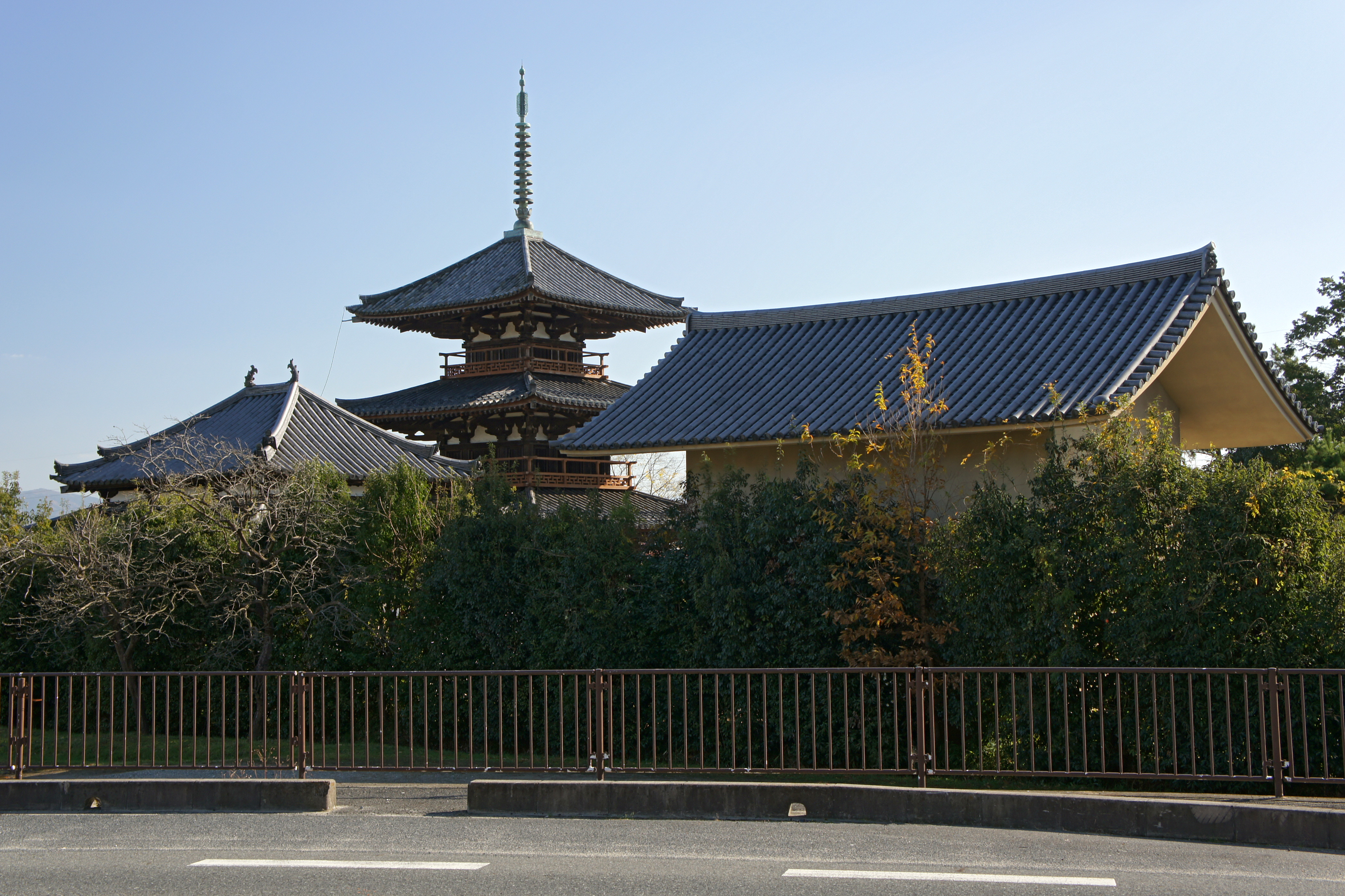 Hokki-ji is a Buddhist temple in Ikaruga, Nara prefecture, Japan. It was registered as part of the UNESCO World Heritage Site "Buddhist Monuments in the Hōryū-ji Area".